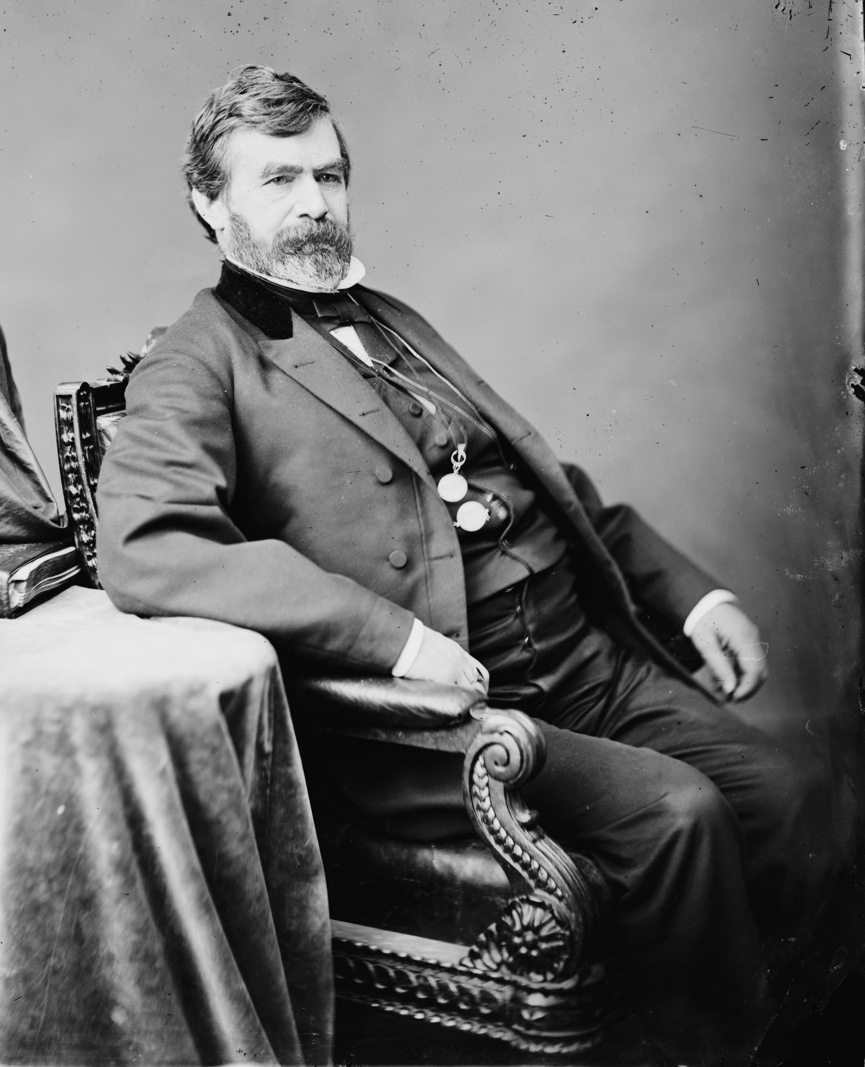 John Dodson Stiles. Library of Congress description: "Hon. John Dodson Stiles of PA."